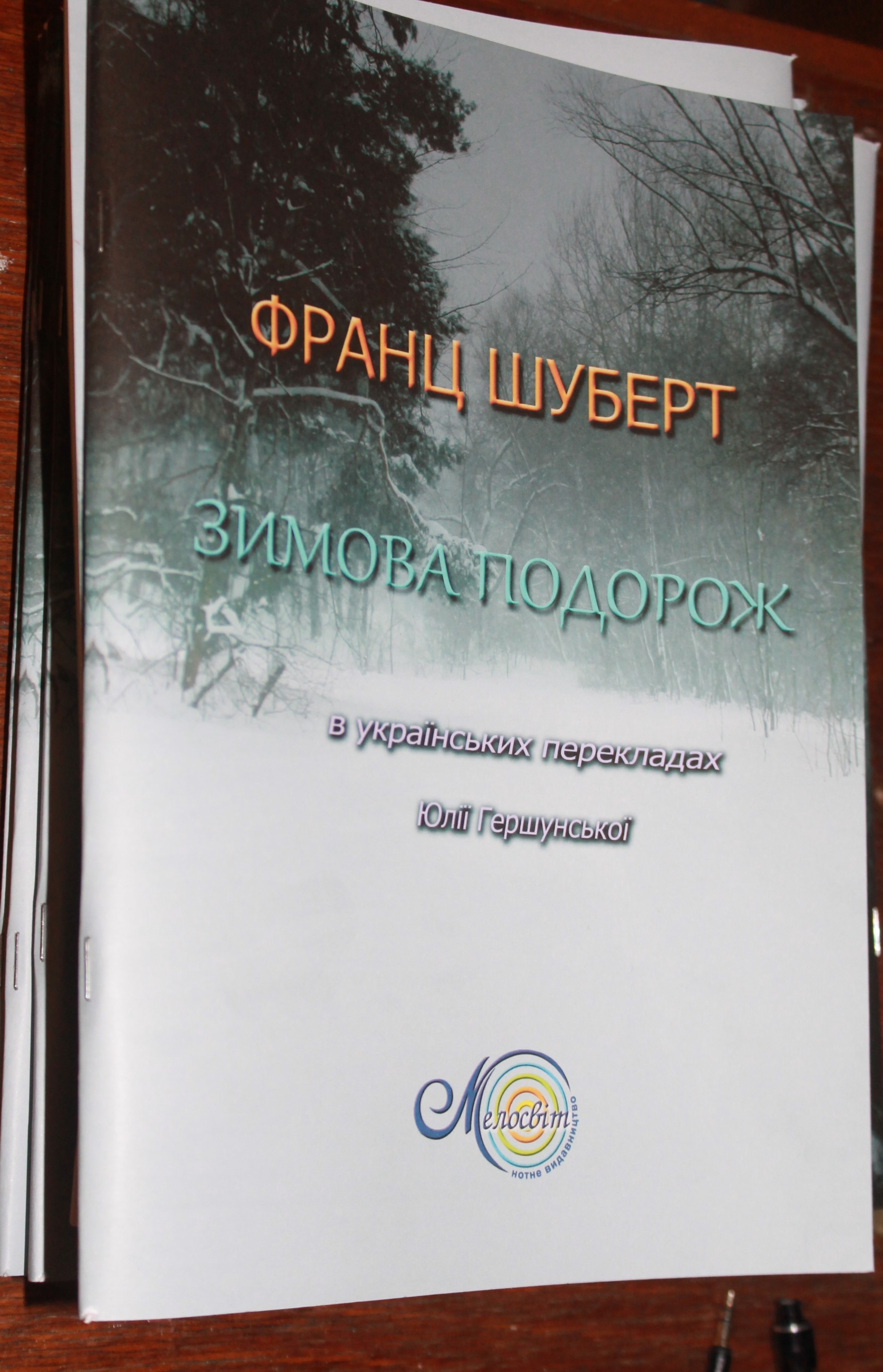 Winterreise in Ukrainian publication